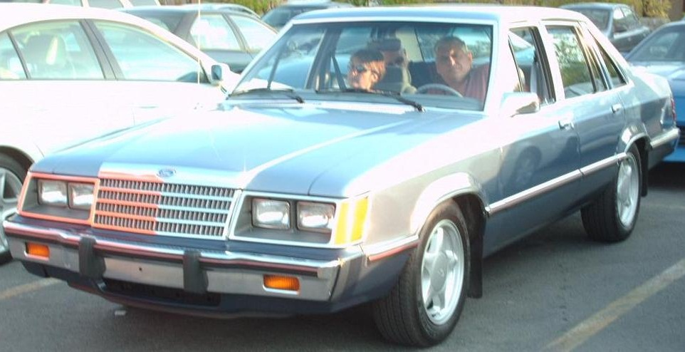 1983-1984 Ford LTD photographed in Montreal, Quebec, Canada at Gibeau Orange Julep.